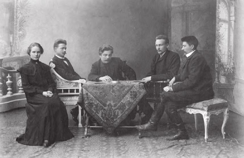 The head committee of the 1905 general strike in Tampere, Finland. From left to right: Siiri Lemberg, Heikki Lindroos, Yrjö Mäkelin, Vihtori Kosonen and Eetu Salin.